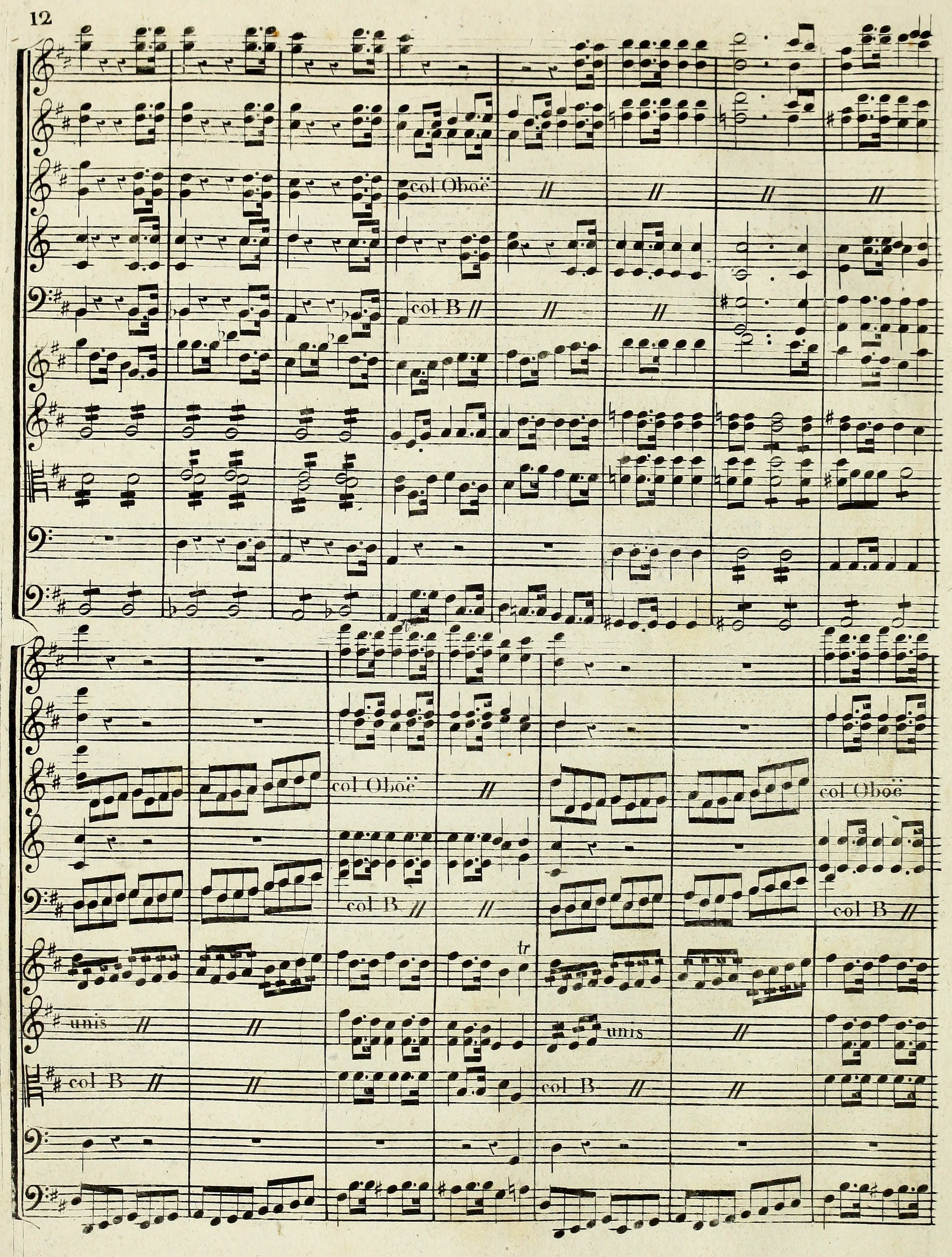 Title: Le grand-père, ou, Les deux âges Year: 1806 (1800s) Authors: Jadin, Louis Emmanuel, 1768-1853, composer Favières, Etienne Guillaume François de, 1755-1837, librettist Subjects: Operas Publisher: Paris: Gaveaux Frères Text Appearing Before Image: I Text Appearing After Image: '